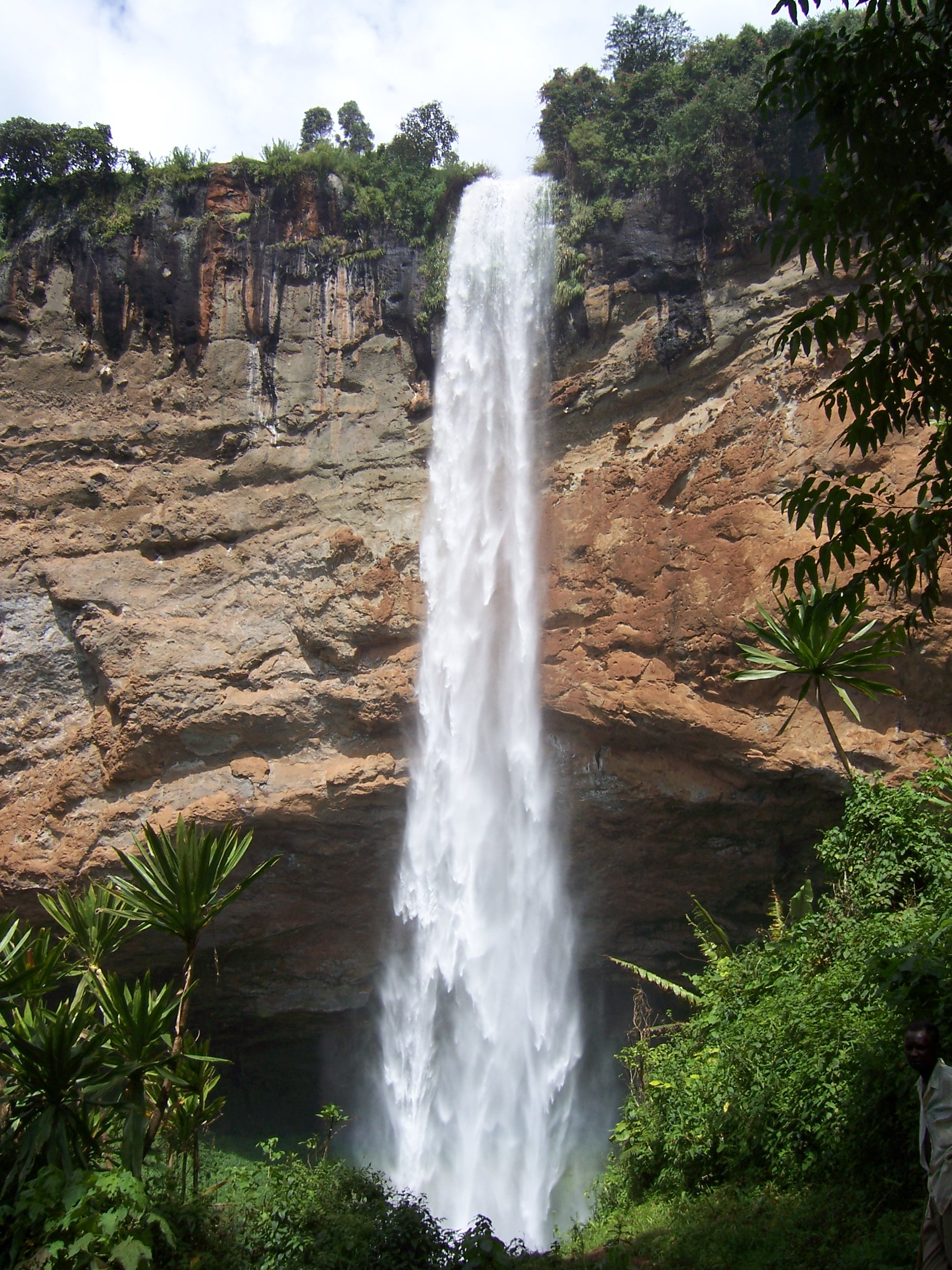 Sipi Falls Main Drop, Uganda.